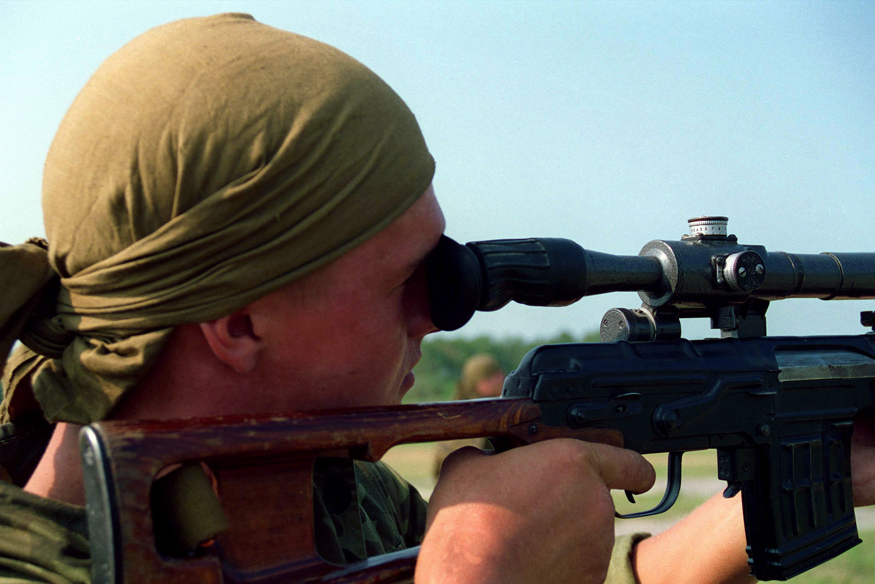 A Kazakhstan Soldier, member of company 5, sights through the PSO-1 telescope mounted atop his 7.62mm Dragunov sniper rifle during the counter-sniper portion of Situational Training Exercise-2 "military operations in urban terrain", part of Operation COOPERATIVE OSPREY 96 held at Camp Lejeune NC.